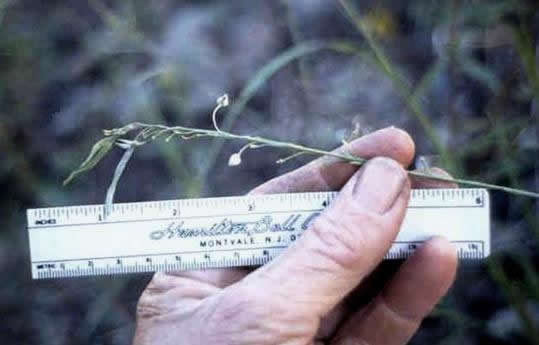 Arabis tricornuta USFS photo